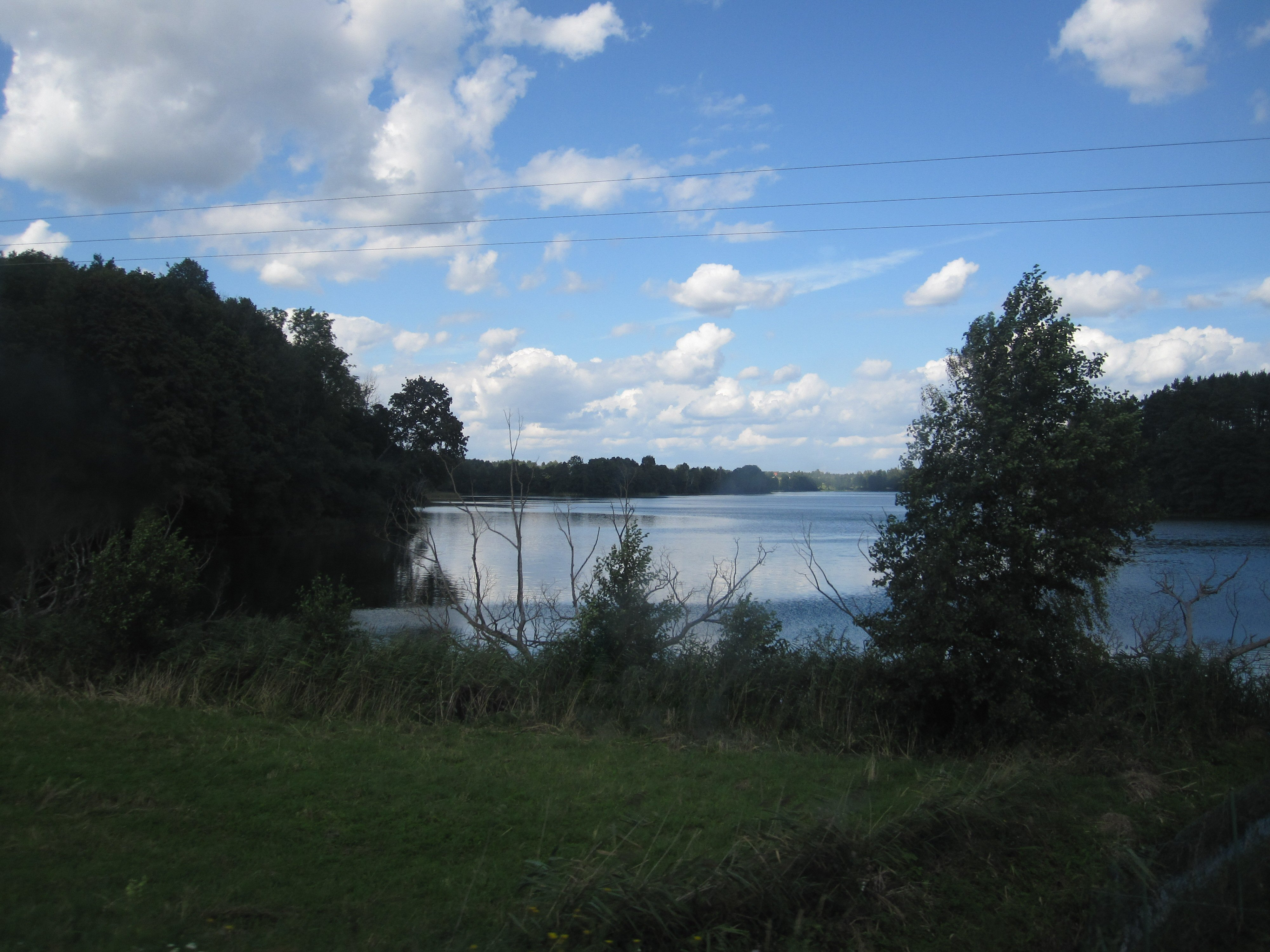 Zełwągi - Głebokie Lake